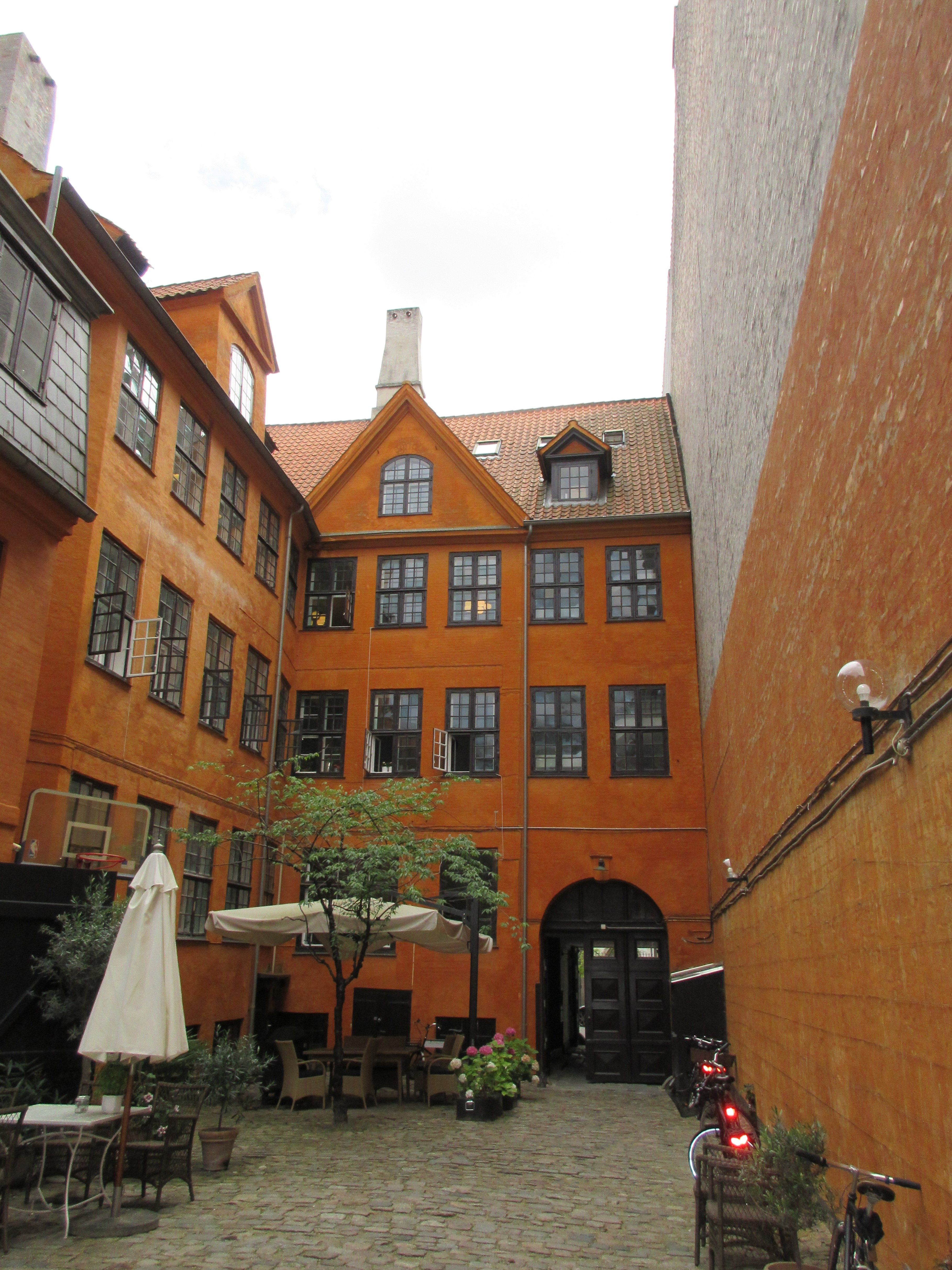 The rear side of the Collin House at Amaliegade 9 in Copenhagen, Denmark